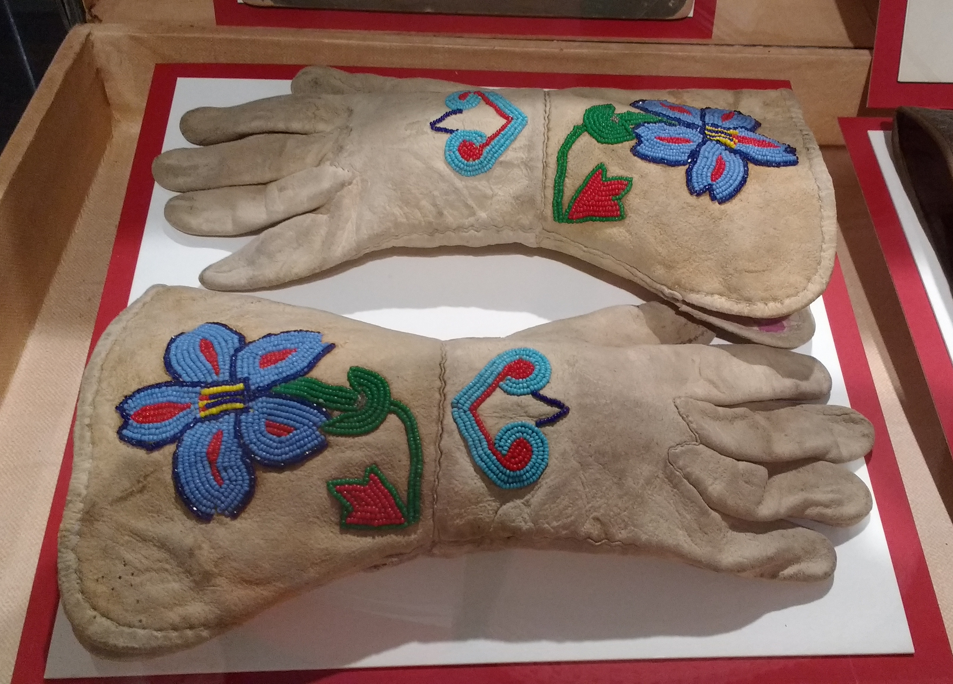 White leather gauntlets embroidered in blue and other colors, worn by Dale Evans, from the collections of the University of Pennsylvania.